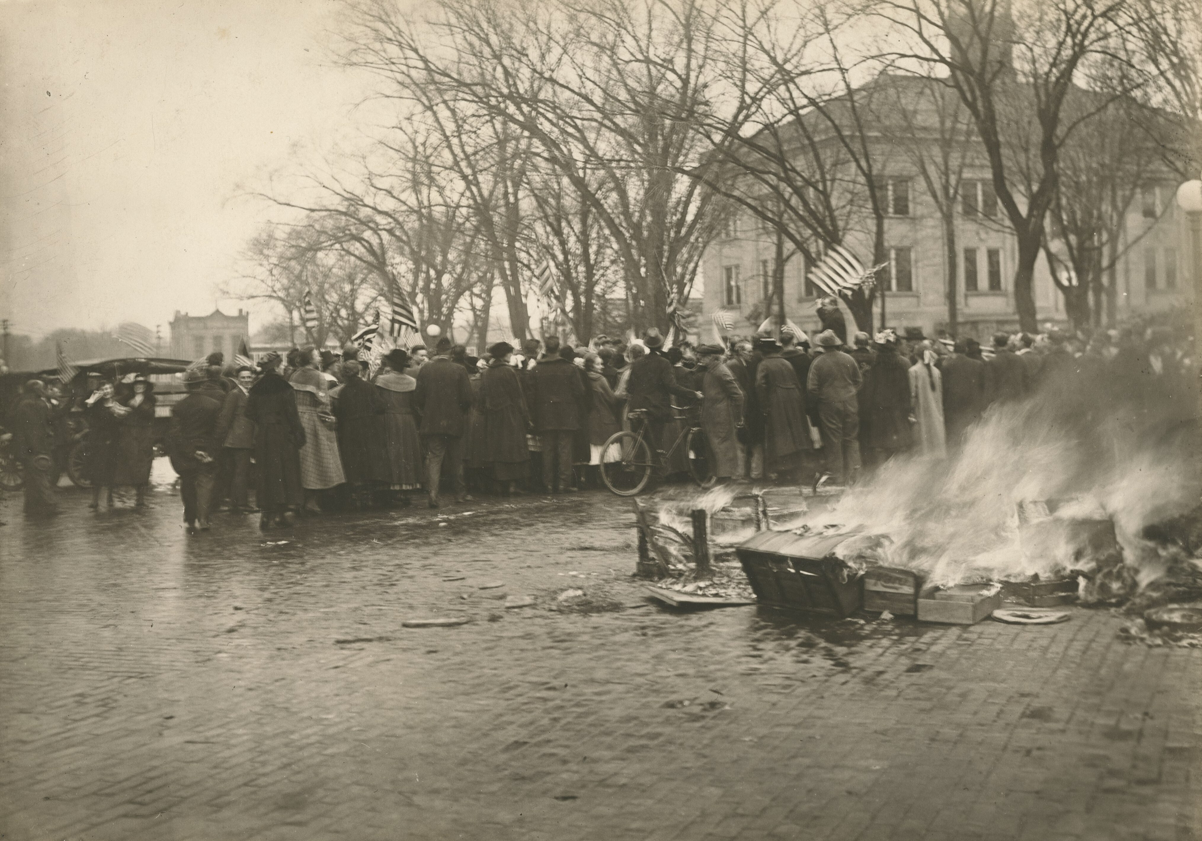 Title: A pile of German textbooks, from the Baraboo High School, burning on a street in Baraboo, Wisconsin, during an anti-German demonstration Abstract/medium: 1 photograph : gelatin silver ; sheet 12.1 x 17.3 cm.